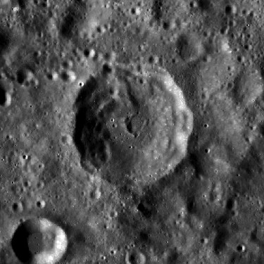 LRO image of the lunar crater Henderson